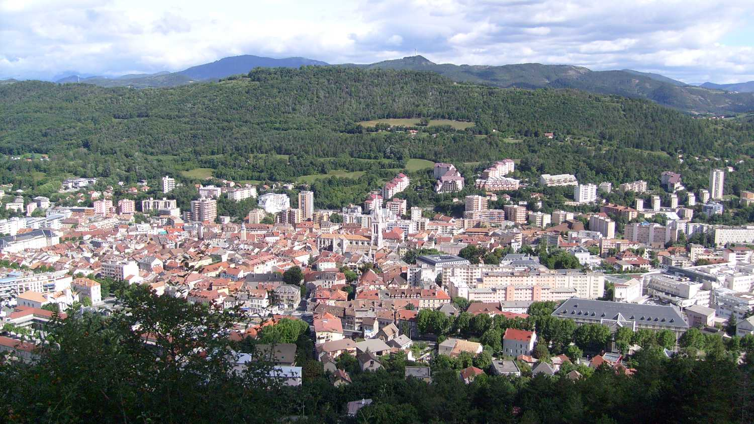 Center town of Gap{ Hautes-Alpes, France)